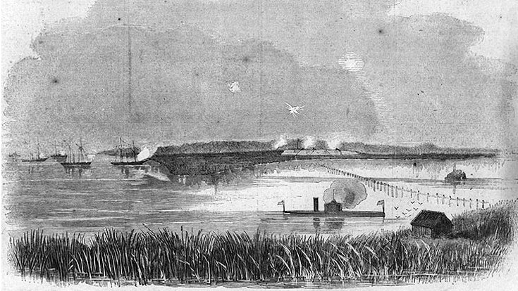 USS Montauk and her sister ships shell Fort McAllister